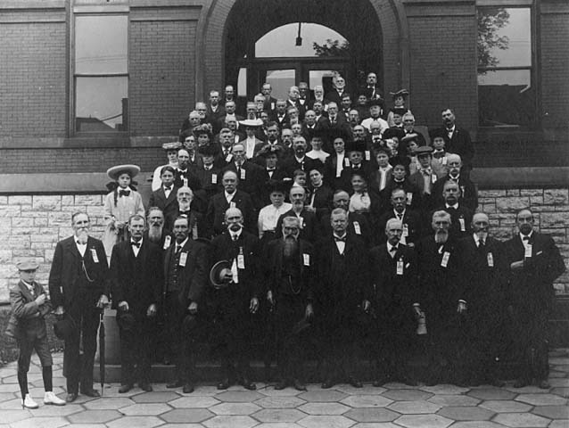 Group of surviving veterans of the 7th Minnesota.Photograph taken in 1905